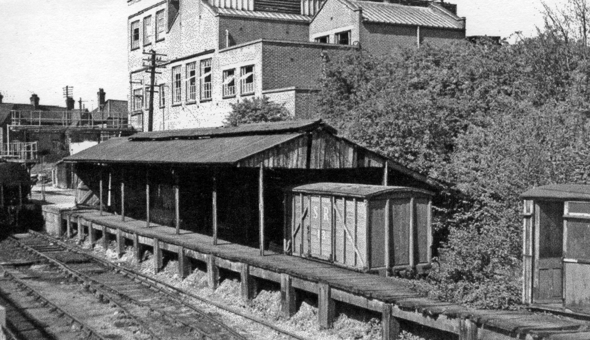 Disused terminal platforms of the former Southwold Railway at Halesworth, 1940Adjoining the ex-GER station on the East Suffolk Railway, this was the Halesworth terminus of the 3 ft. gauge railway from Southwold, closed since 11/4/29 and now (2016) in process of restoration by the Southwold Railway Trust.